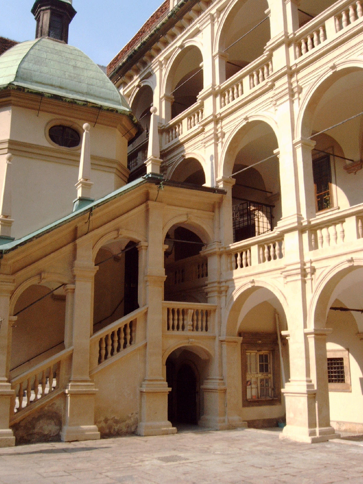 Courtyard of the Landhaus in Graz.